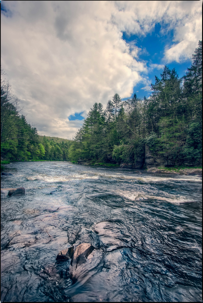 River, New York, Upstate